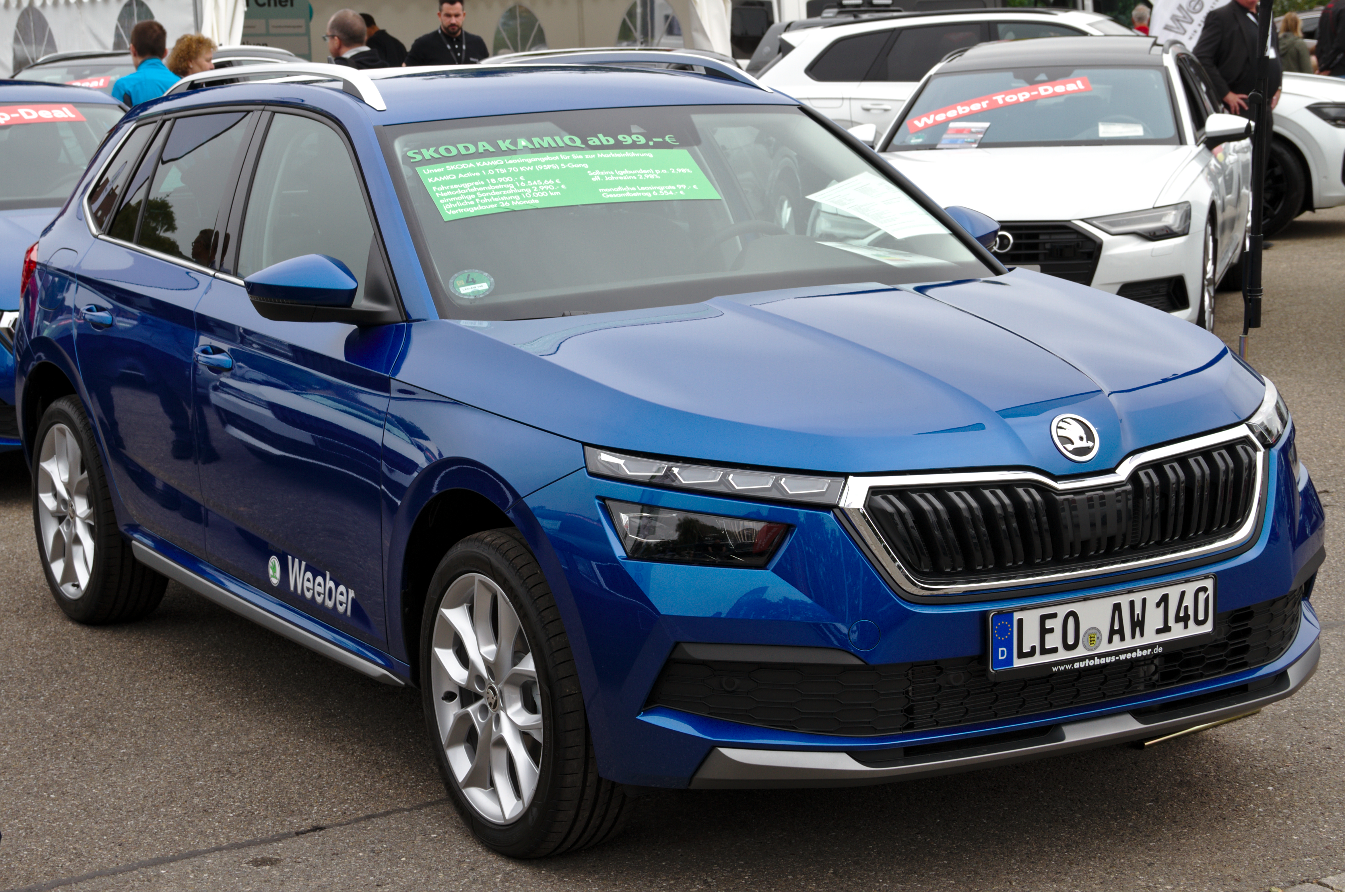 Skoda_Kamiq at Leonberger Autoschau 2019